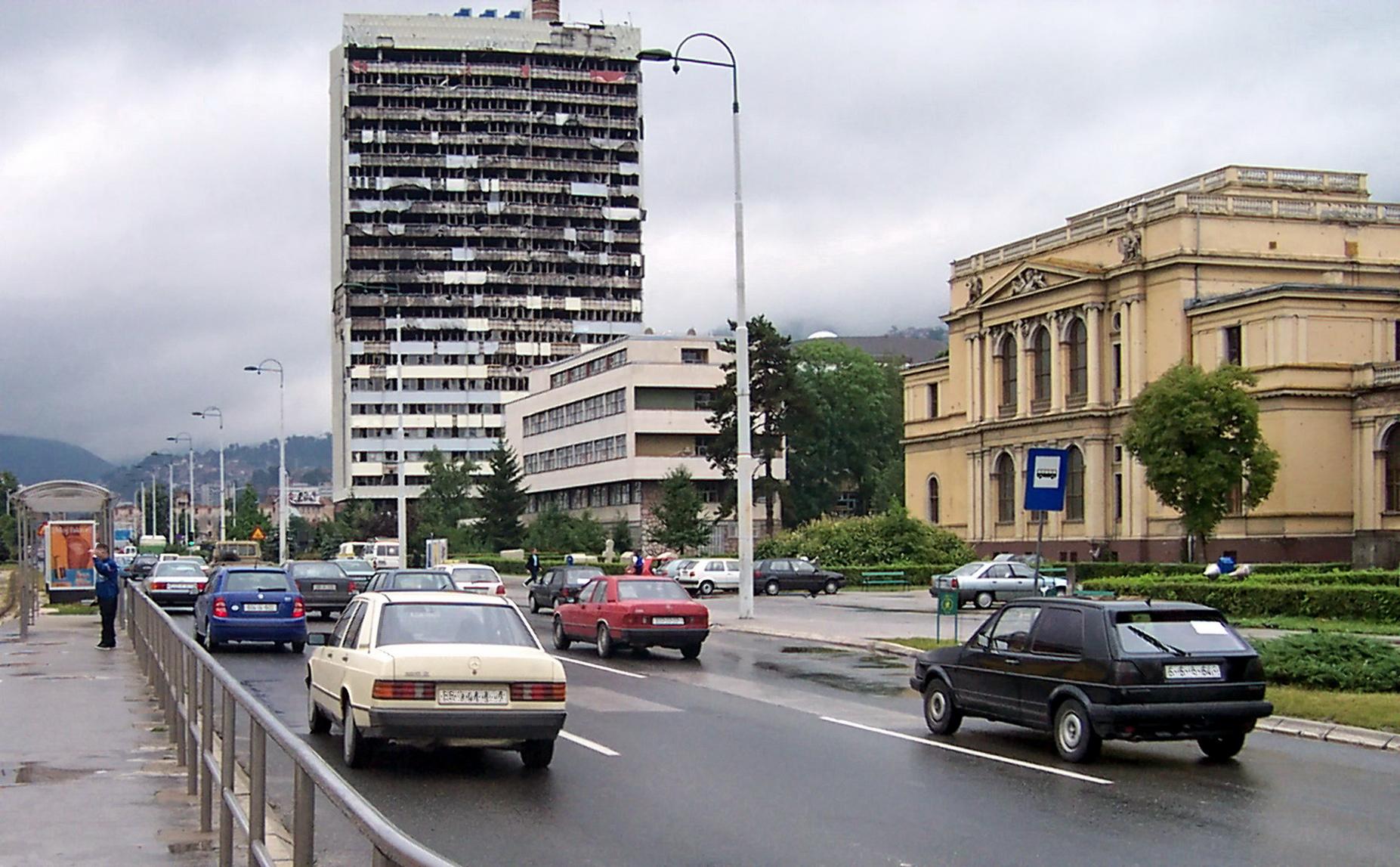 Parliament Building of Sarajevo 2001car-plates mixed up to random, face of bystander blurred